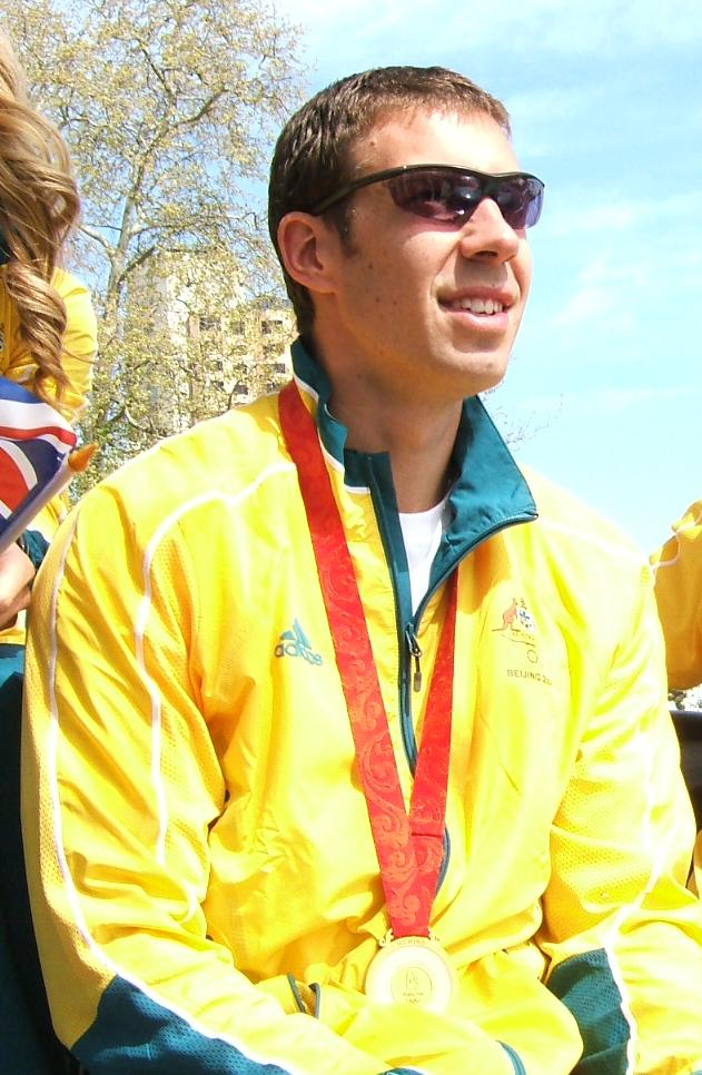 Scott Brennan at the 2008 Olympic homecoming parade in Adelaide